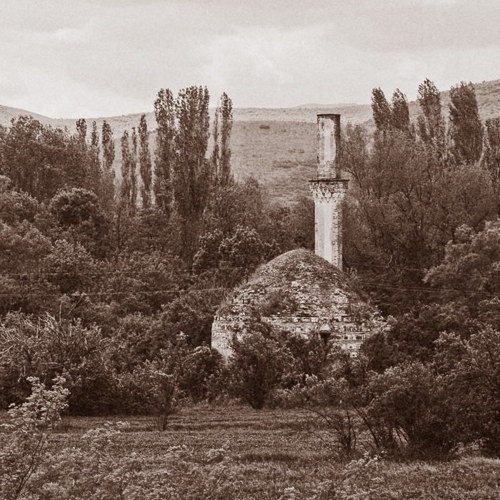 Old mosque in the village of Tabanovce, Republic of Macedonia.